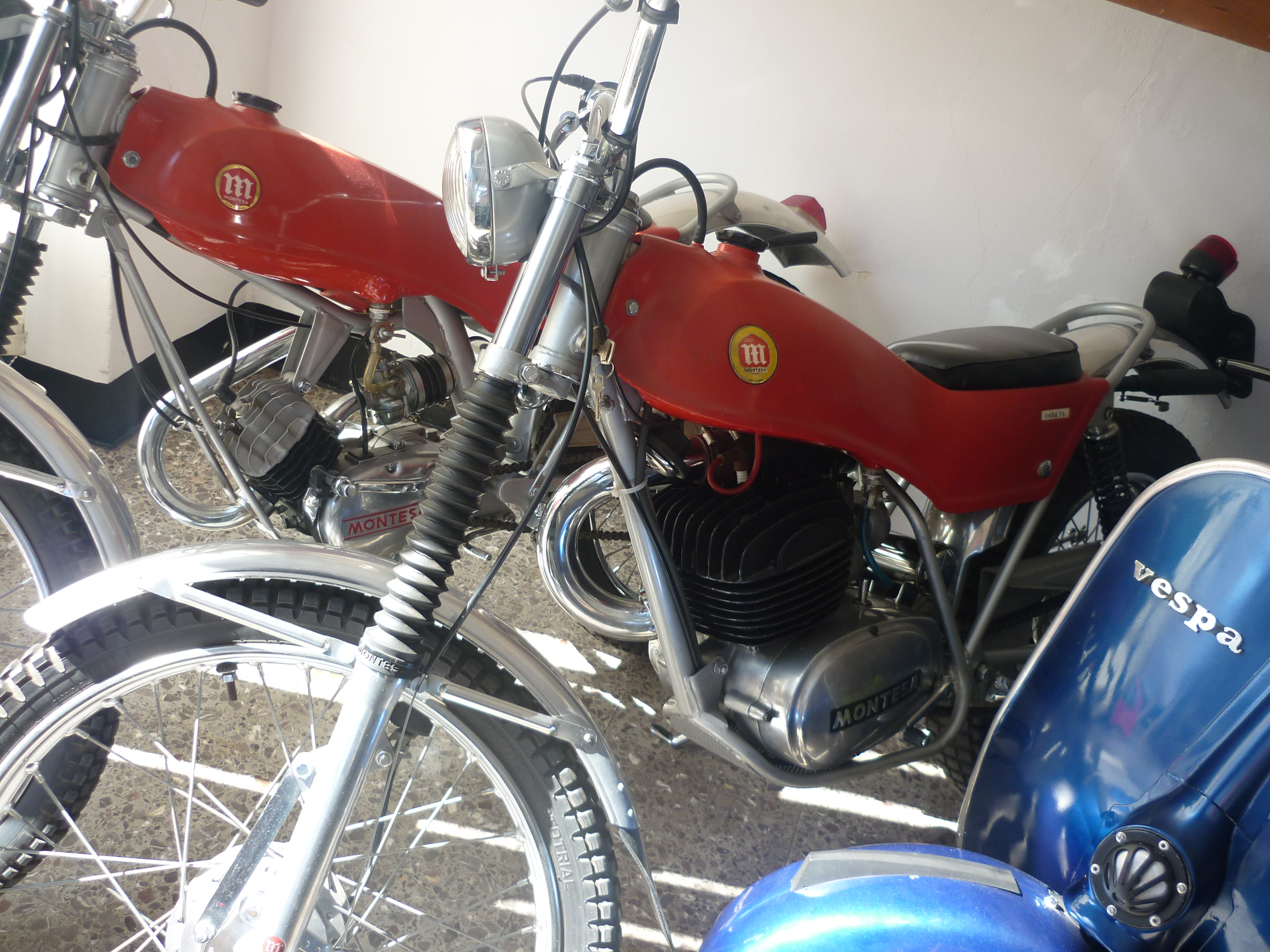 Montesa Cota 49 (left) and Cota 74, 1972, Vilassar de Mar (Catalonia).